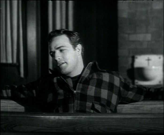 Marlon Brando in a screenshot from the trailer for the film On the Waterfront.